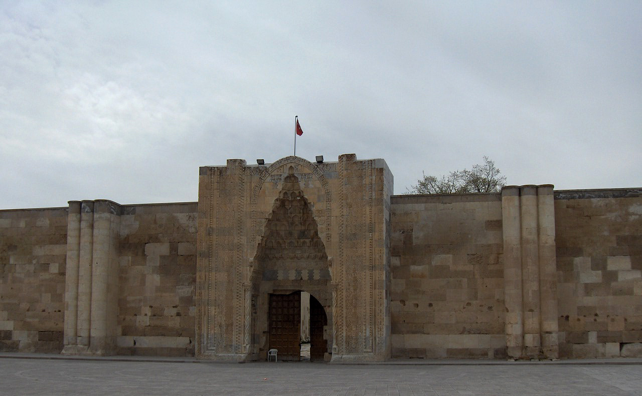 Monumental entrance of the Sultanhani caravanserai at Aksaray, Turkey.